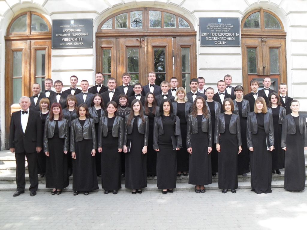 Choir «Gaudeamus»